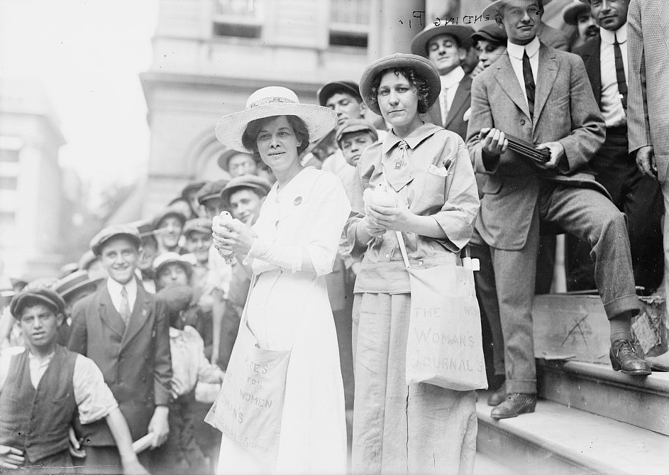 Photo shows suffragists Elisabeth Freeman (1876-1942) and Elsie McKenzie with pigeons. (Source: Flickr Commons project, 2009)